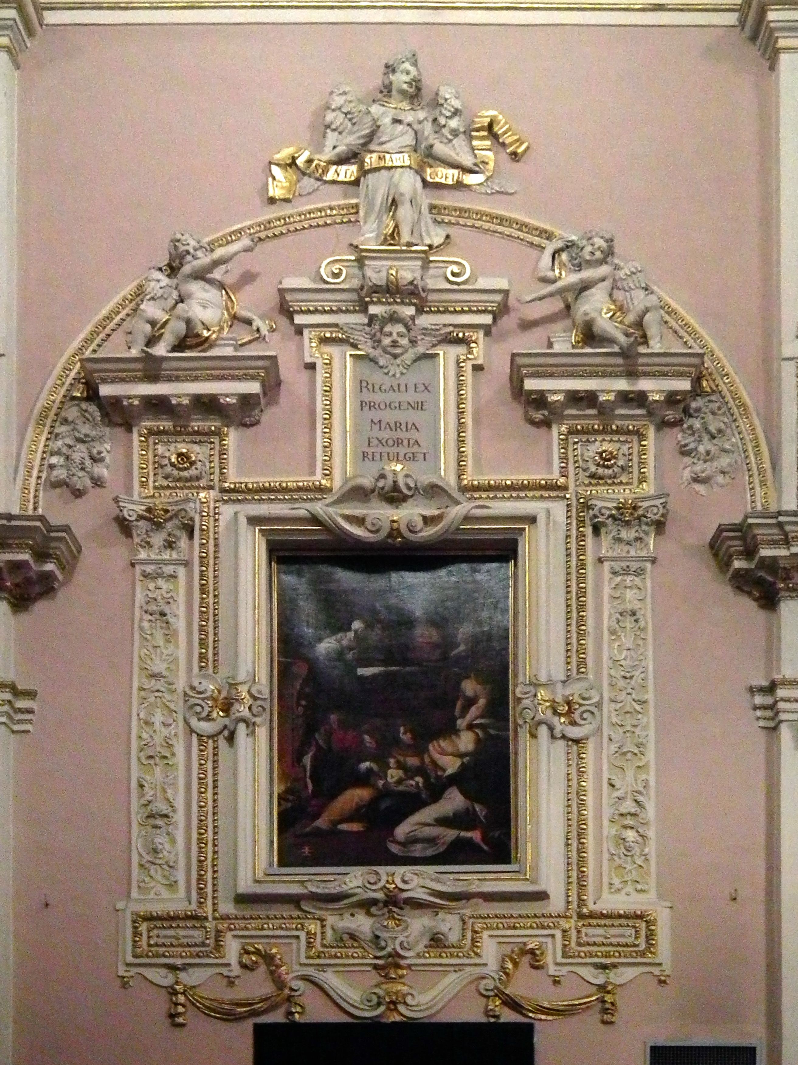 Santuario della Beata Vergine del Fiume, Colico, Lombardy, Italy Santuario della Beata Vergine del Fiume Native nameSantuario della Beata Vergine del FiumeLocationMandello del Lario, Lombardia, ItalyCoordinates45° 54′ 56″ N, 9° 19′ 03″ E Authority control : Q7420717